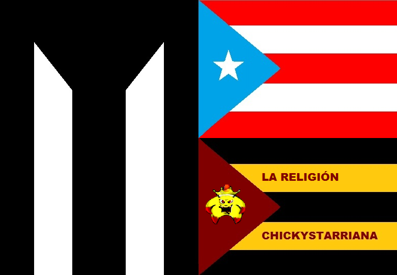 1- Top right, the Flag of Puerto Rico, used by Ricky Banderas during his days wrestling as “El Patriota”. 2- A shadowed version of the flag, adopted by Banderas during his time as a member of Los Intocables. Both of these flags use the outline of the flag of Puerto Rico, which is not copyrighted nor is derrivative work based on it. 3- The Flag of the Starr Corporation. The original design was created by José “Chicky Starr” Laureano’s fan club, Los Chickystarrianos, who donated it to the public domain so that it could be used interpromotionally by fans and Laureano himself without entering copyright conflicts with the International Wrestling Association, since he was a free-contractor working for the company. The original flag was buried along the body of Starr Corporation member, Víctor “The Bodyguard” Rodríguez.